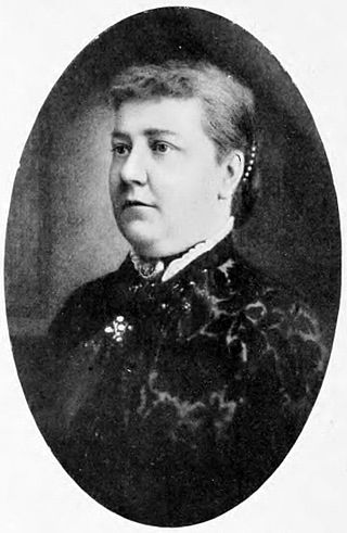 Portrait of Lady Campbell-Bannerman